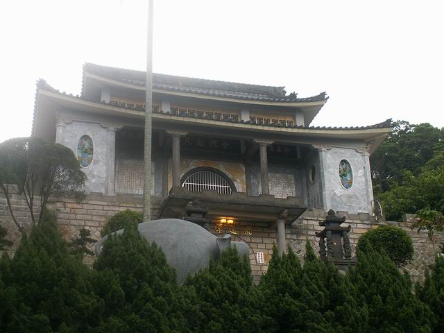 YuanTong_Temple(Jhonghe_City) Jhonghe City taipei county taiwan,(R.O.C.)